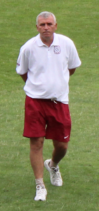 Mikhail Kalyta